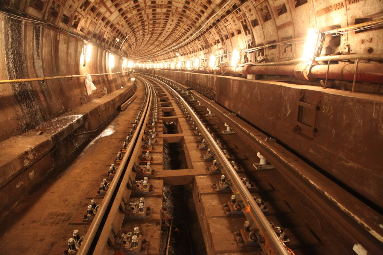 Work being done near the Jamaica/Van Wyck station on the E line. Photo: MTA New York City Transit / Leonard Wiggins